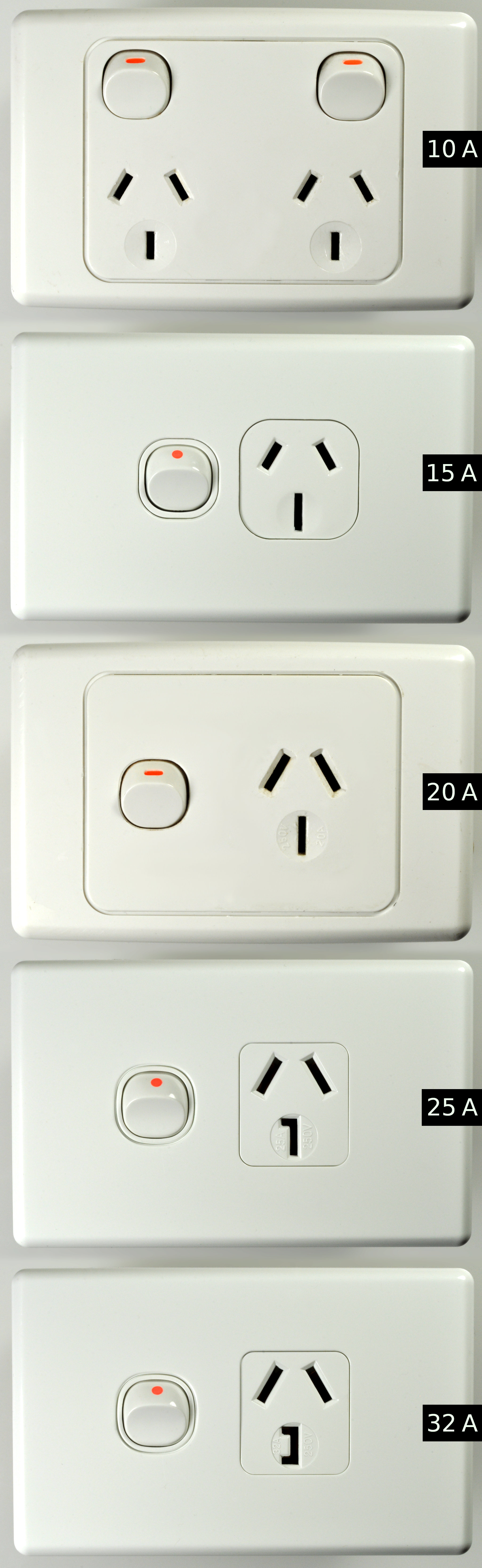 Australian domestic (indoor, single phase) mains socket outlets are available in a range of different rated currents, as specified in the AS/NZS 3112 national standards document. This image shows each of the available current ratings side by side for comparison purposes. Starting with the basic 10 A socket outlet, the width of the Earth pin is first increased for the 15A socket outlet, the width of the Line and Neutral pins are then increased for the 20 A socket outlet and the shape of the Earth pin is then changed for the 25 A and 32 A socket outlets, permitting only plugs of an equal or lesser current rating to be inserted into any socket outlet. The 10 A and 20 A socket outlets are Clipsal brand, and the others are Tesla brand (not affiliated with the car company).